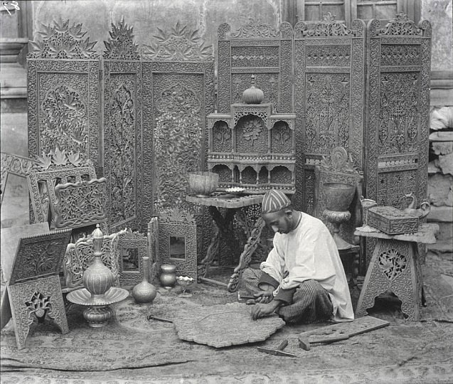 A woodcarver in Kashmir photographed by Fred Bremner in about 1896. Seen on the left are intricately carved bookcases, mirror frames, and vases, while the beautifully designed screen in the background defines the artisan's 'studio' space.